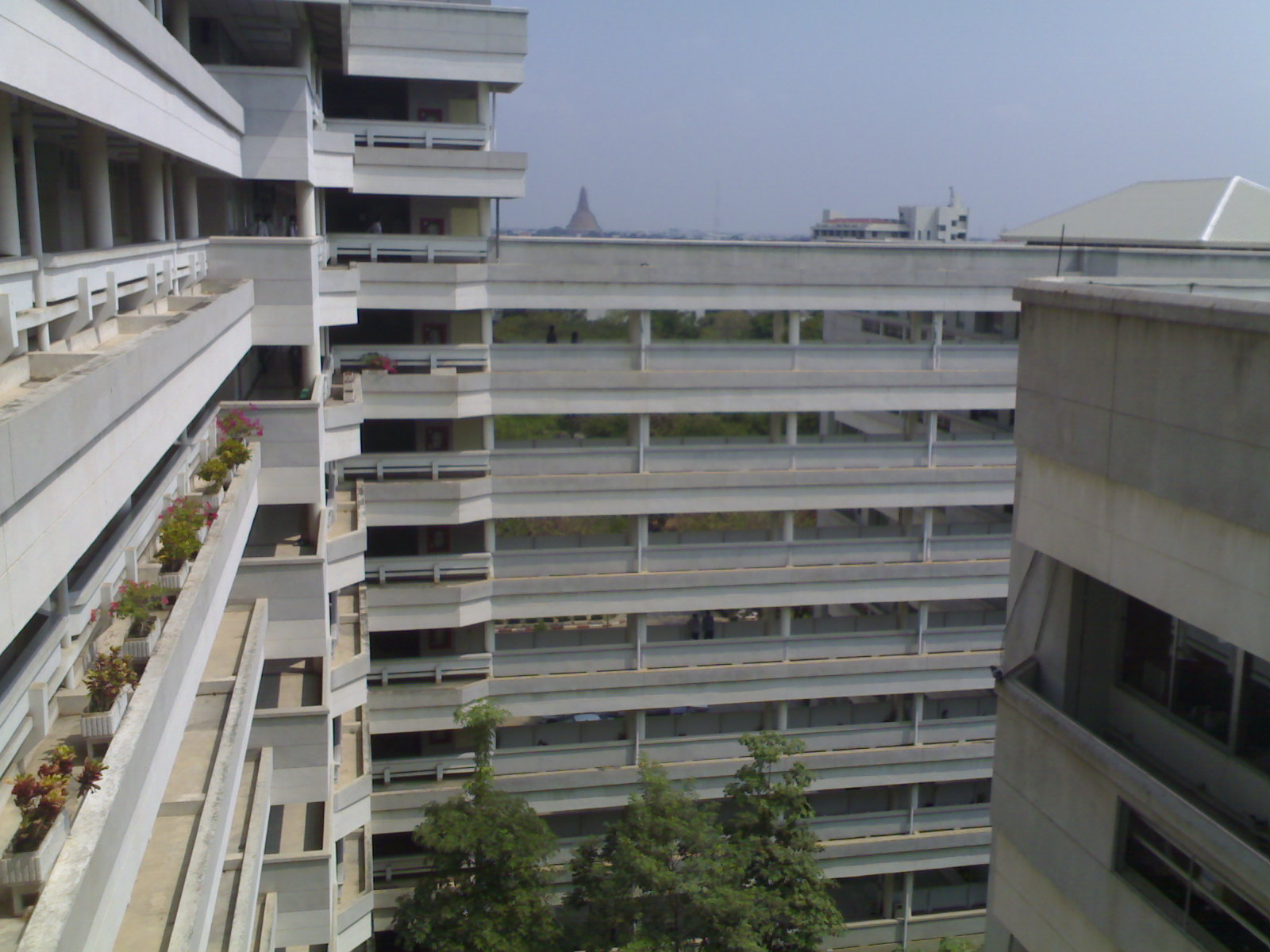 East_Wing_Entech_su